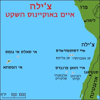 Map (rough) of some Chilean islands in the Pacific ocean, own work composed from various mapreferences